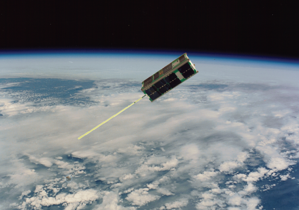 This artist's rendition displays how CSSWE would look orbiting over Alaska.